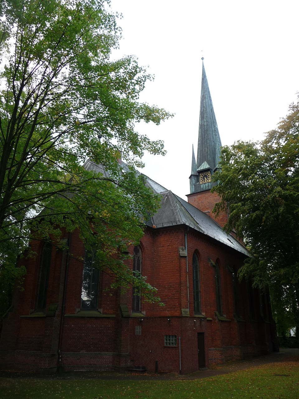 Old-Aumund-Church in Bremen-Vegesack